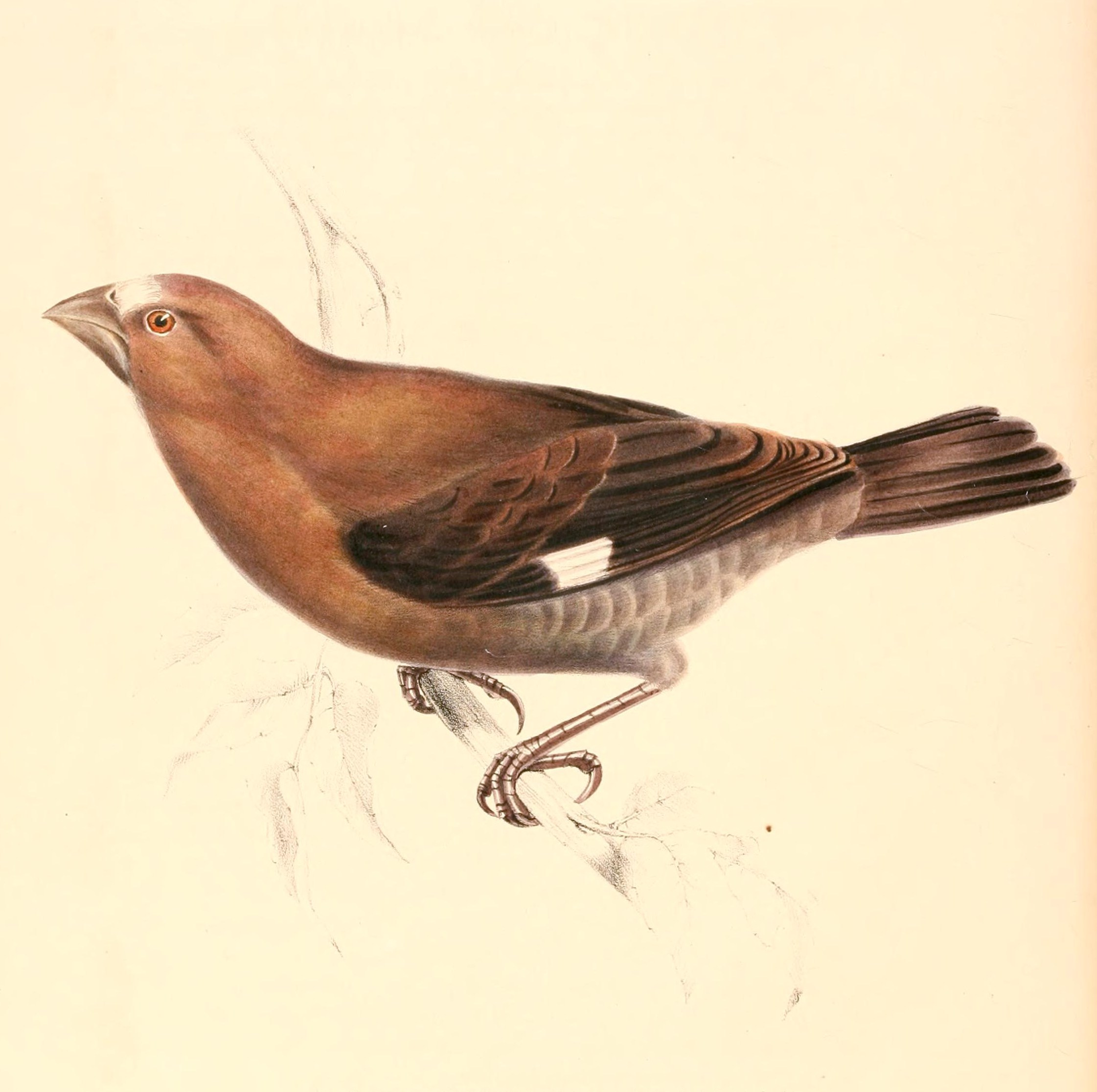 « Pyrenestes frontalis » = Amblyospiza albifrons (Thick-billed Weaver) - adult